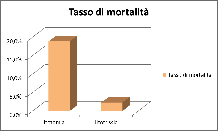 grafico